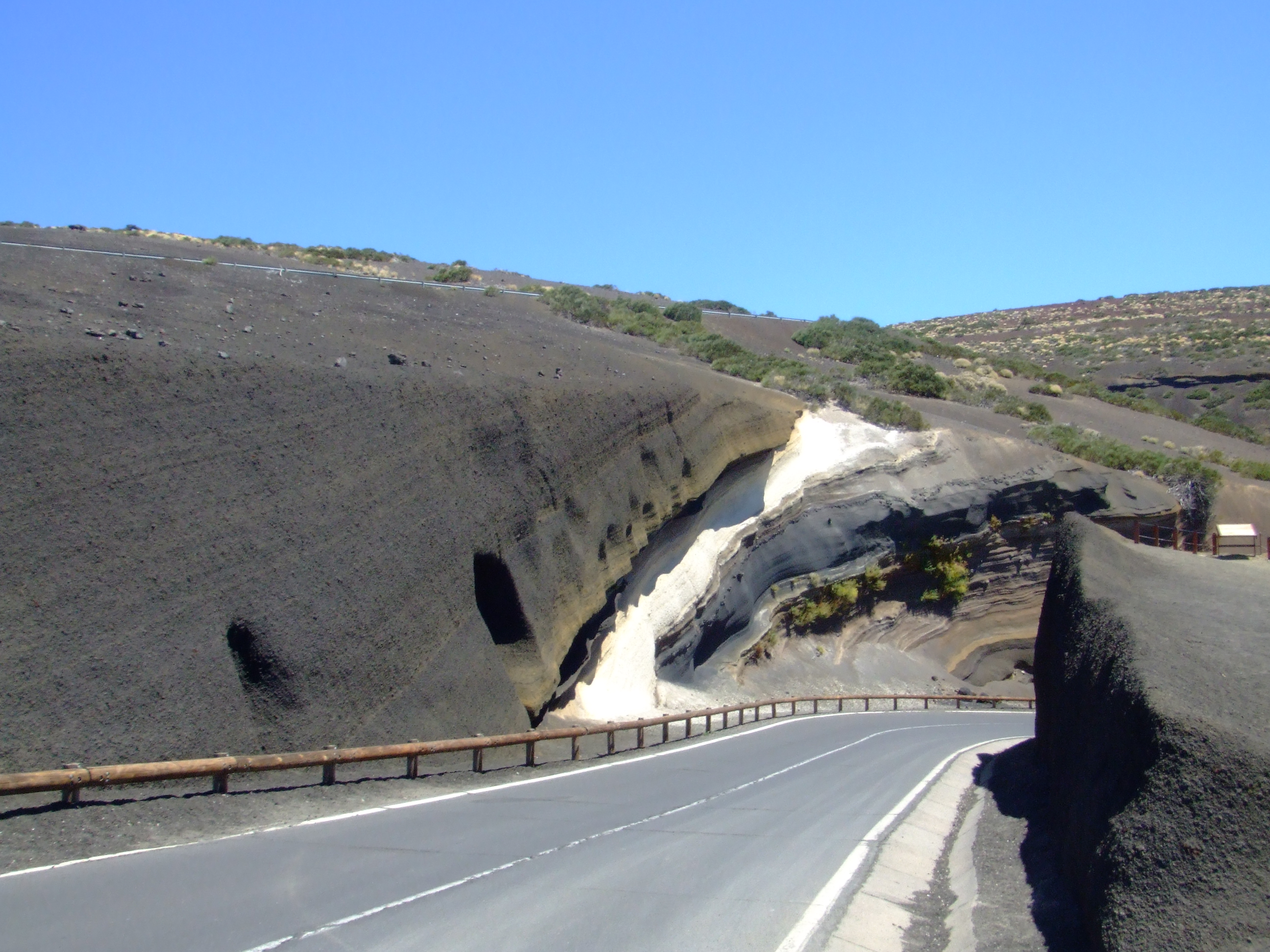 Cafe con Leche (Coffee with milk) rock formation near Mt. Teide